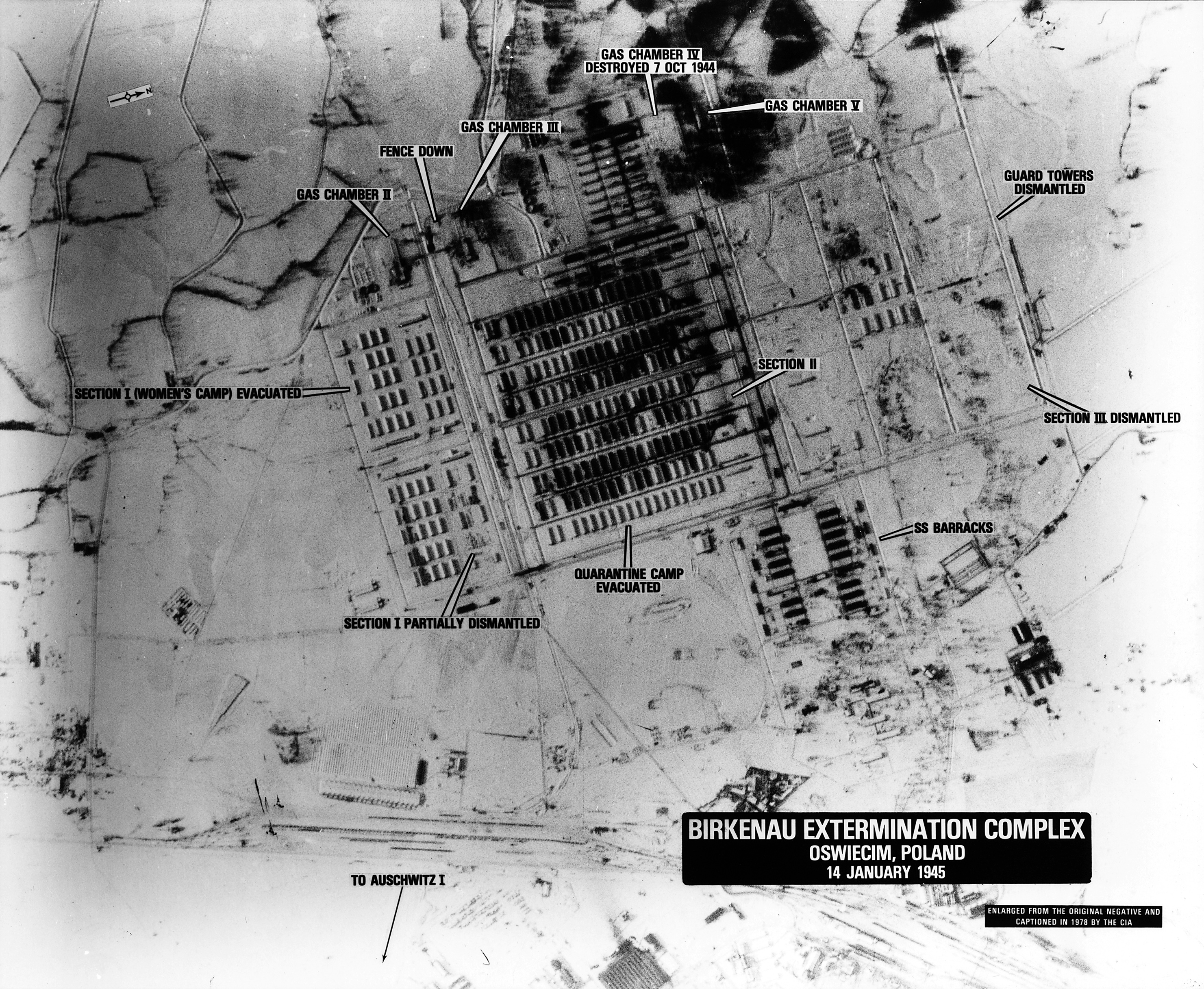 Aerial Photography of Auschwitz Concentration Camp, Birkenau Extermination Complex - Oswiecim, Poland